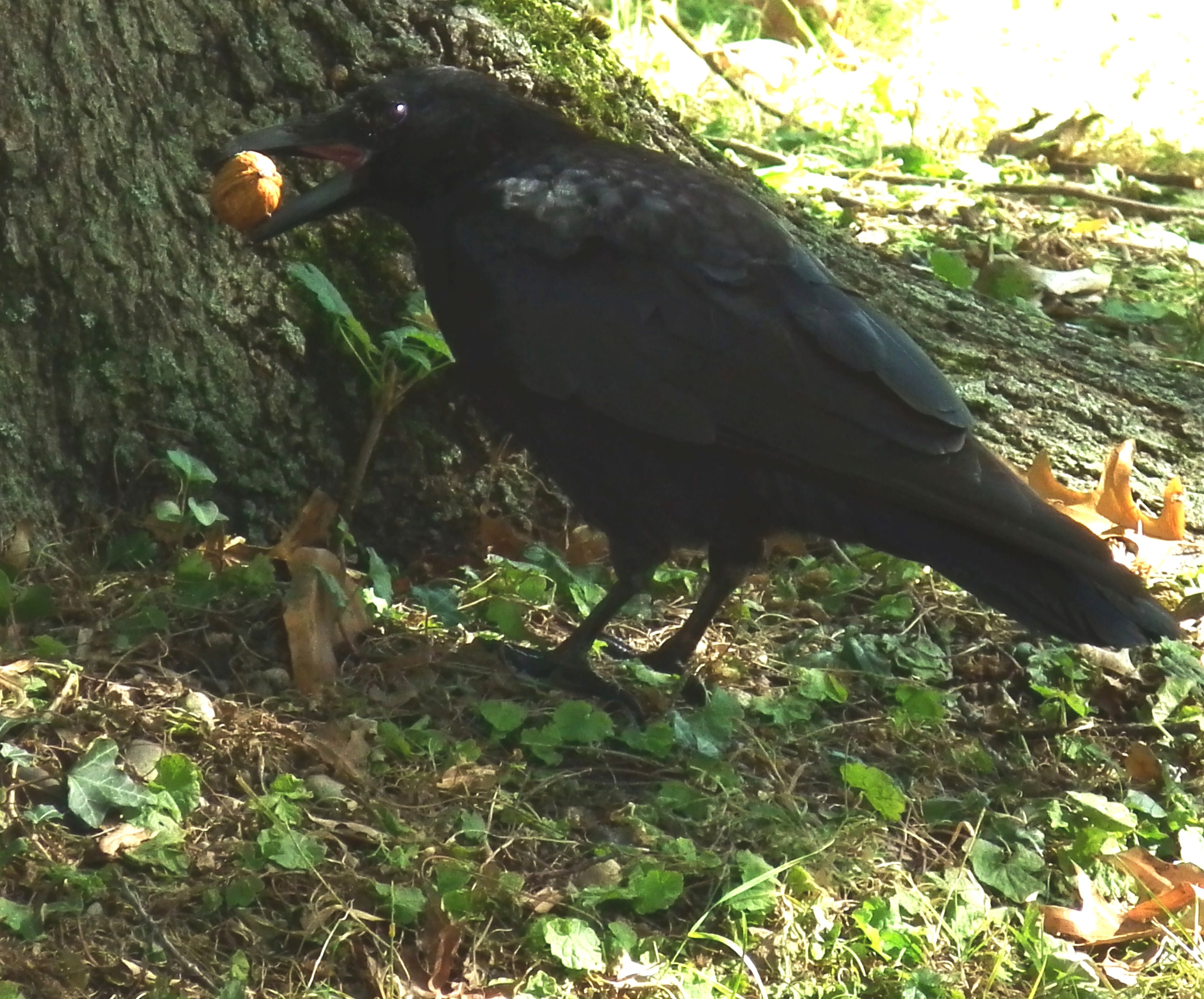 Corvus corone with walnut (Juglans regia)